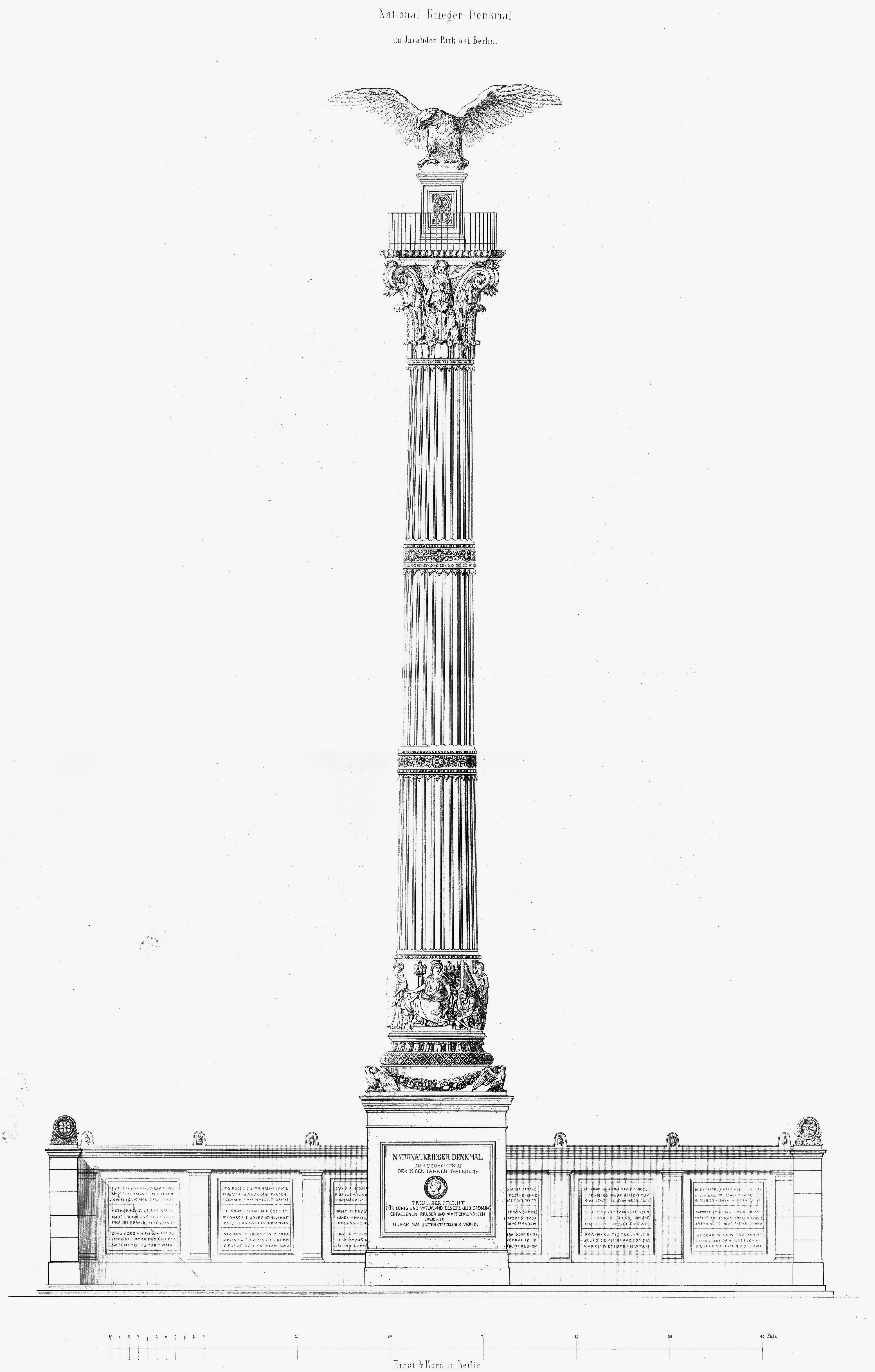 Berlin - Invalidensäule (National Krieger Denkmal), elevation